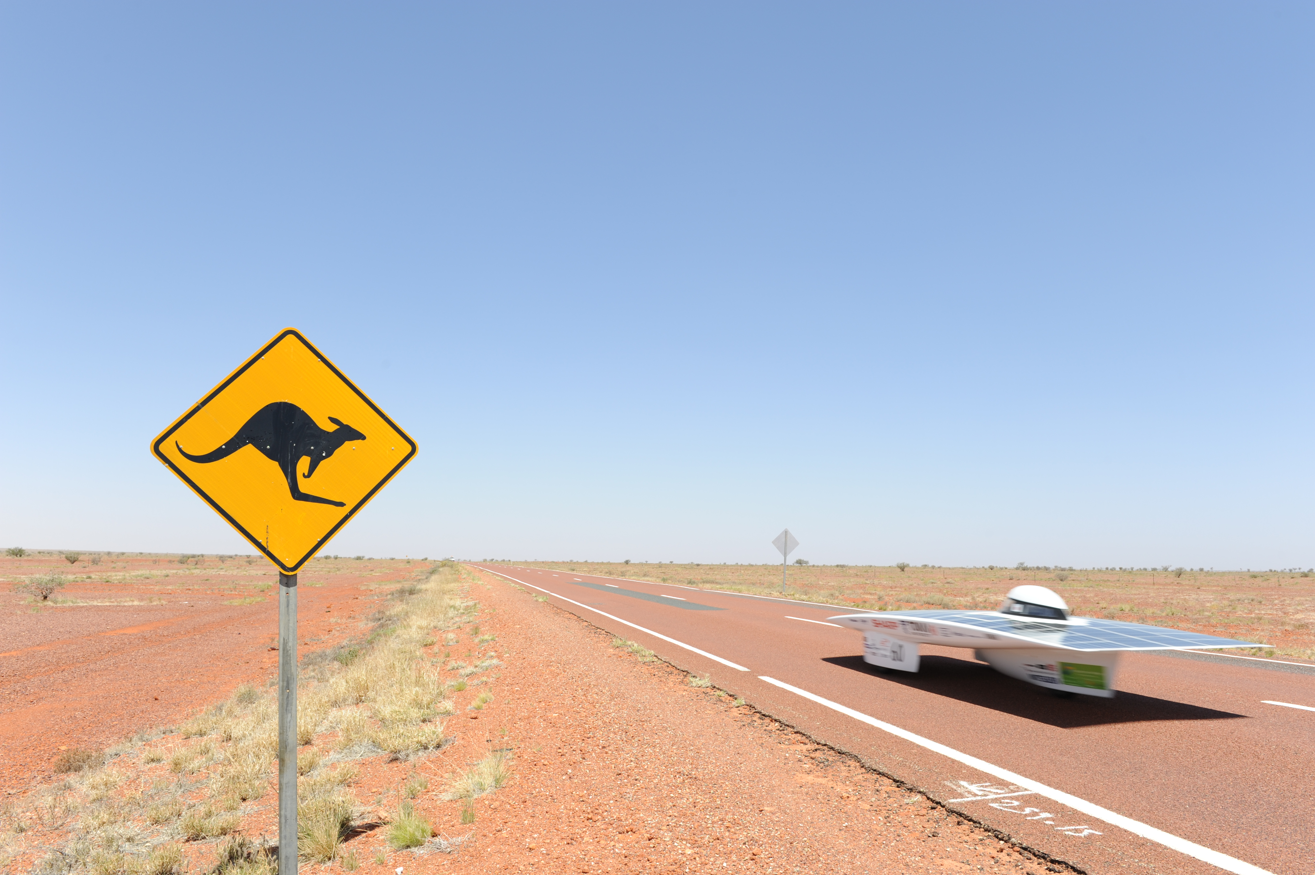 Solar Car "Tokai Challenger" running on the Stuart Highway. (2009/10/27)